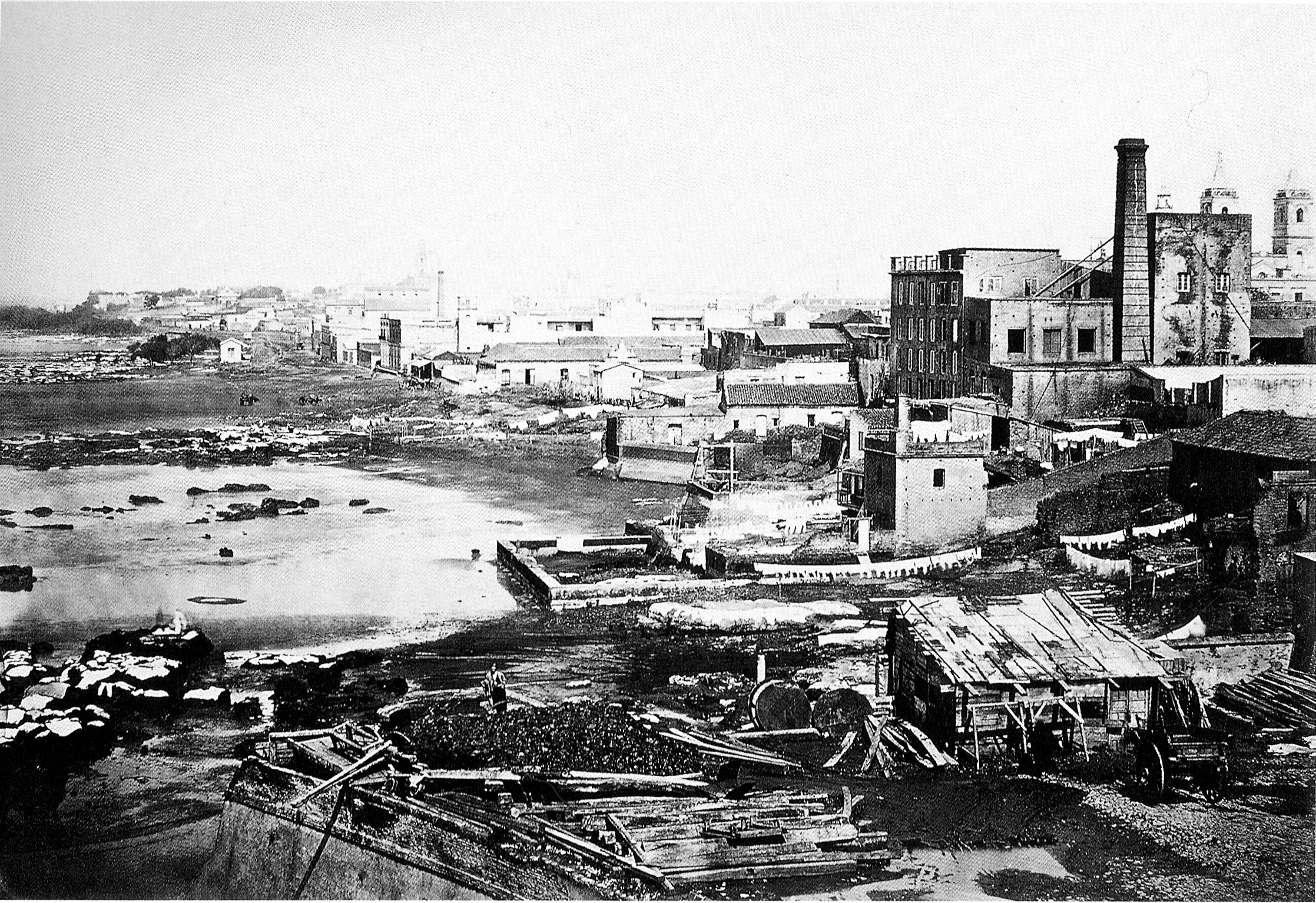 Paseo Colón ca. 1867. View towards the South from the New (Taylor) Customs House. At the reight, the San Francisco mill. Behind it, the towers of Santo Domingo Church. in the background, barely perceptible, the towers of San Pedro Telmo Church.